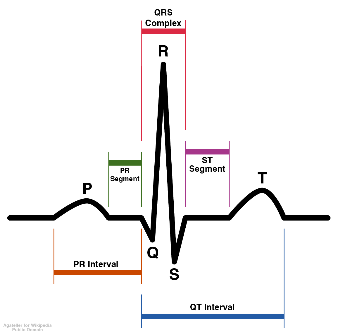 "Schematic diagram of normal sinus rhythm for a human heart as seen on ECG" (with English labels)